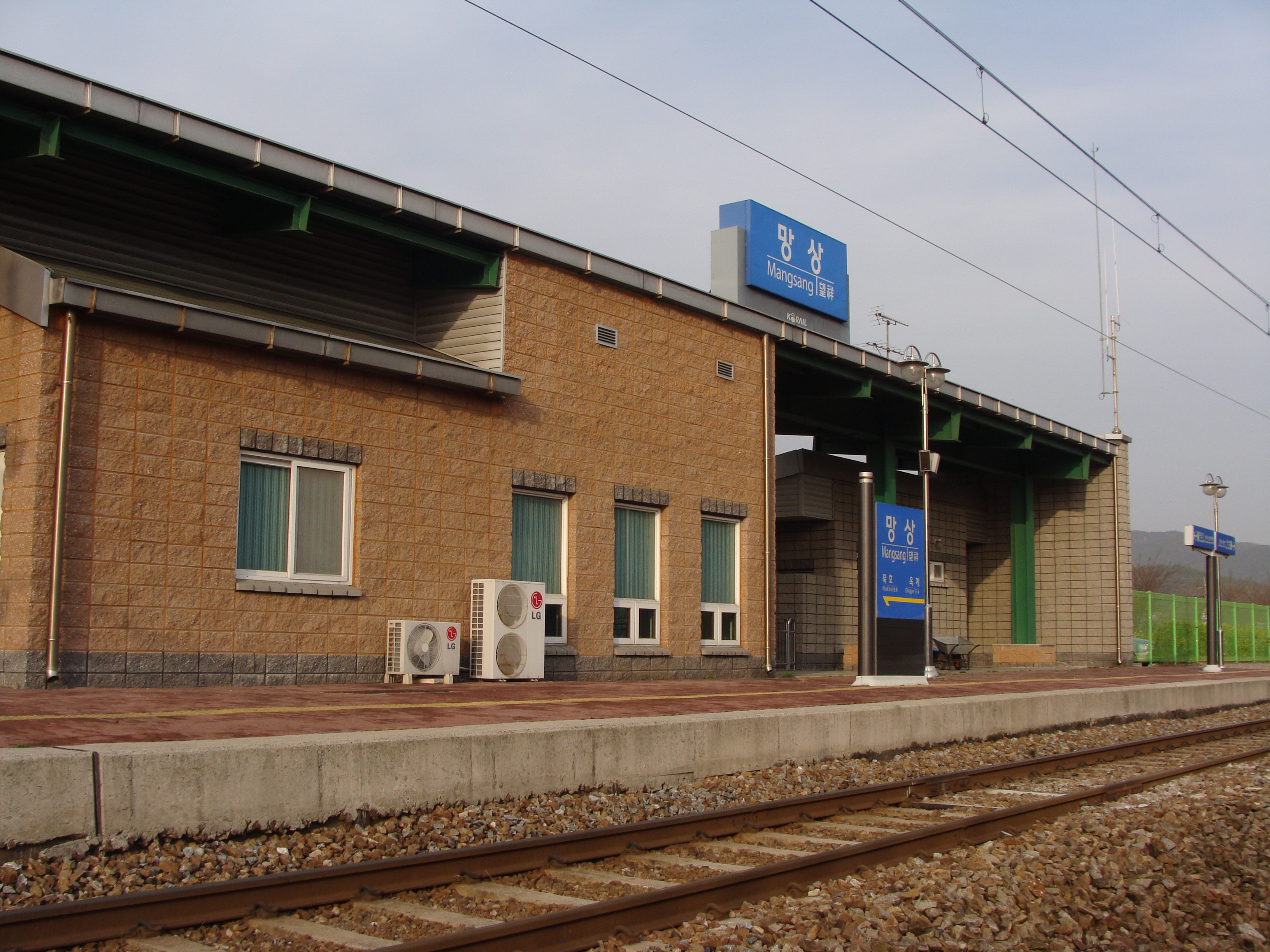 Mangsang Station of Yeongdong Railway Line